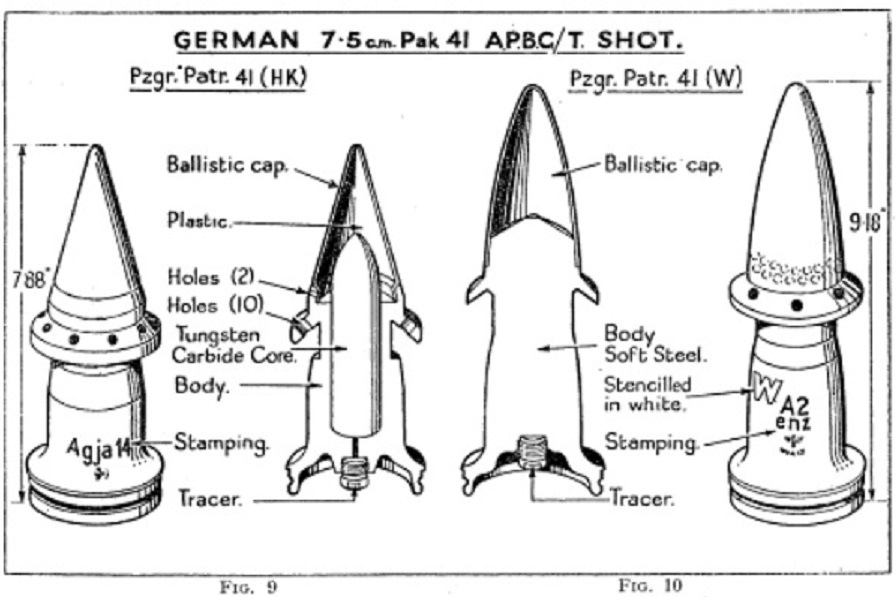 Illustration of "German 7.5 cm Pak 41 A.P.B.C./T. SHOT."